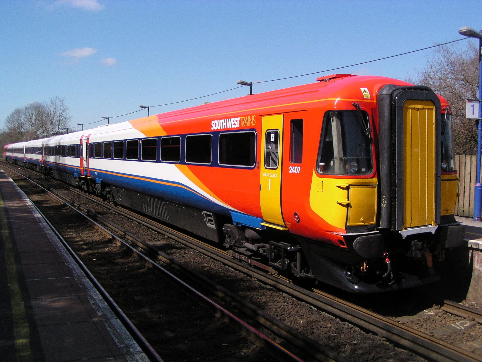 British Rail Class 442 no. 2407 "Thomas Hardy" at Moreton station in Dorset on 10th April 2006. This unit carries the revised livery that conforms with the Disability Discrimination Act.